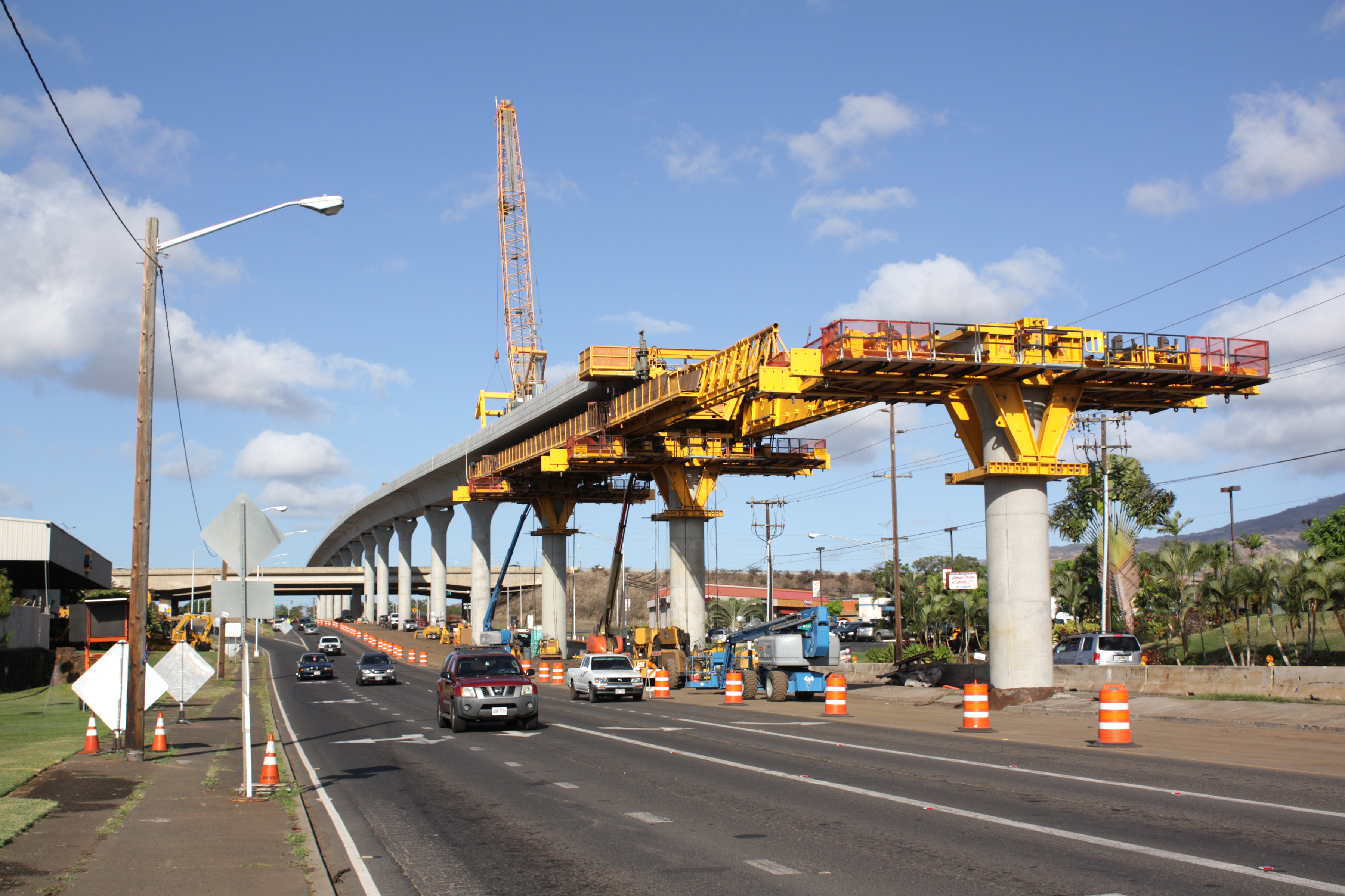 Construction for the Honolulu Rail Transit Project (also known as the Honolulu High-Capacity Transit Corridor Project) in progress in Waipahu along Farrington Highway near Fort Weaver Road.